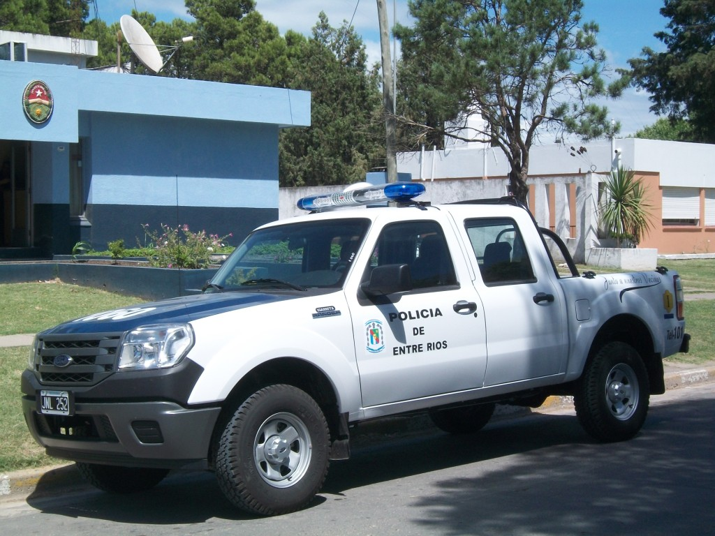 Ford Ranger pickup used by police in the province of Entre Rios, Argentina.